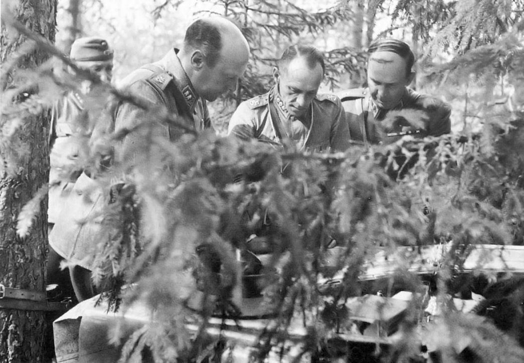 Lieutenant-General Erik Heinrichs, Colonel Ruben Lagus and Major-General Paavo Talvela in summer 1941